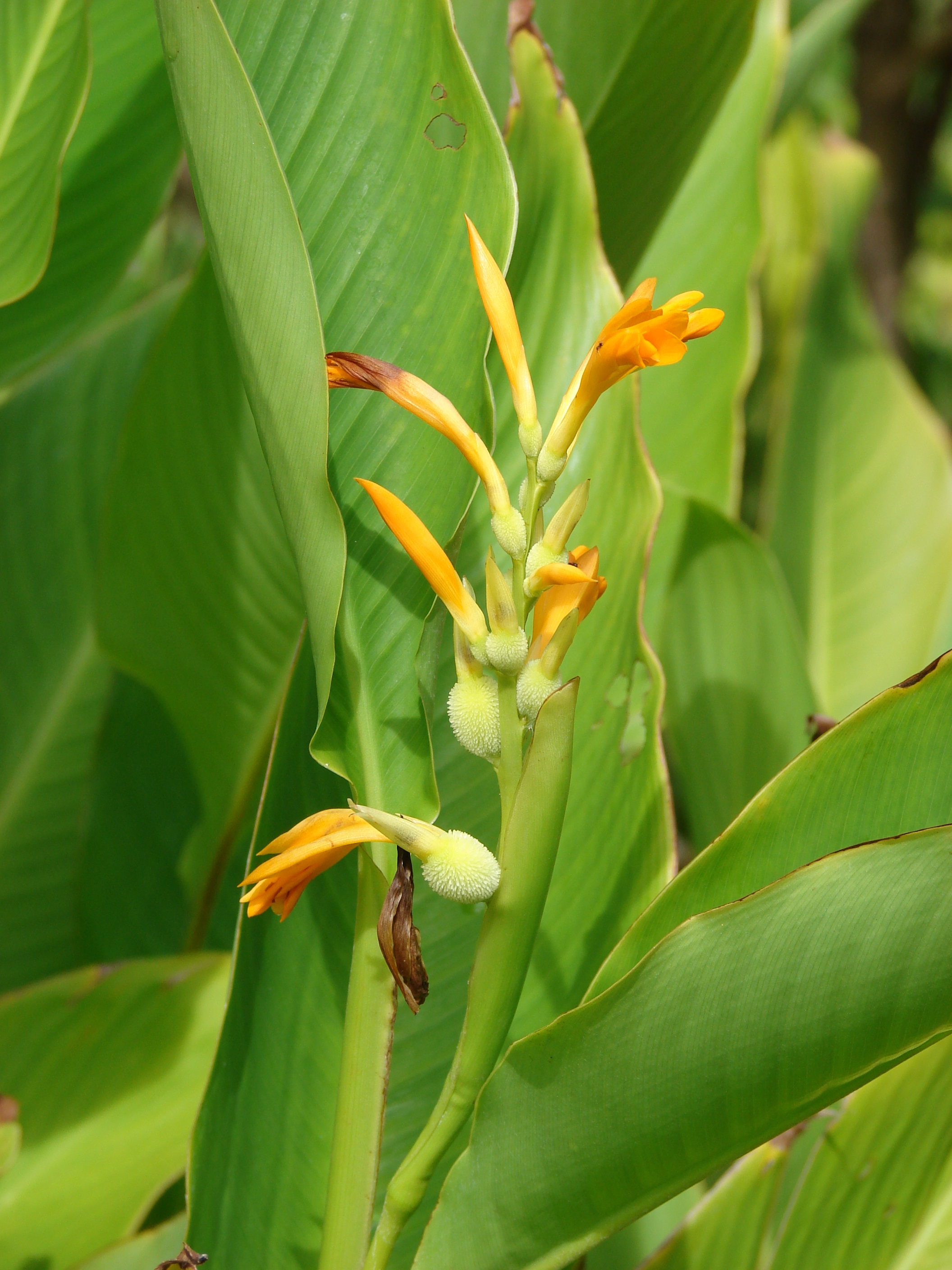 Canna jaegeriana (flowers). Location: Maui, Enchanting Gardens of Kula